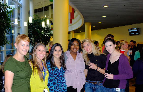 Student life at OGSM